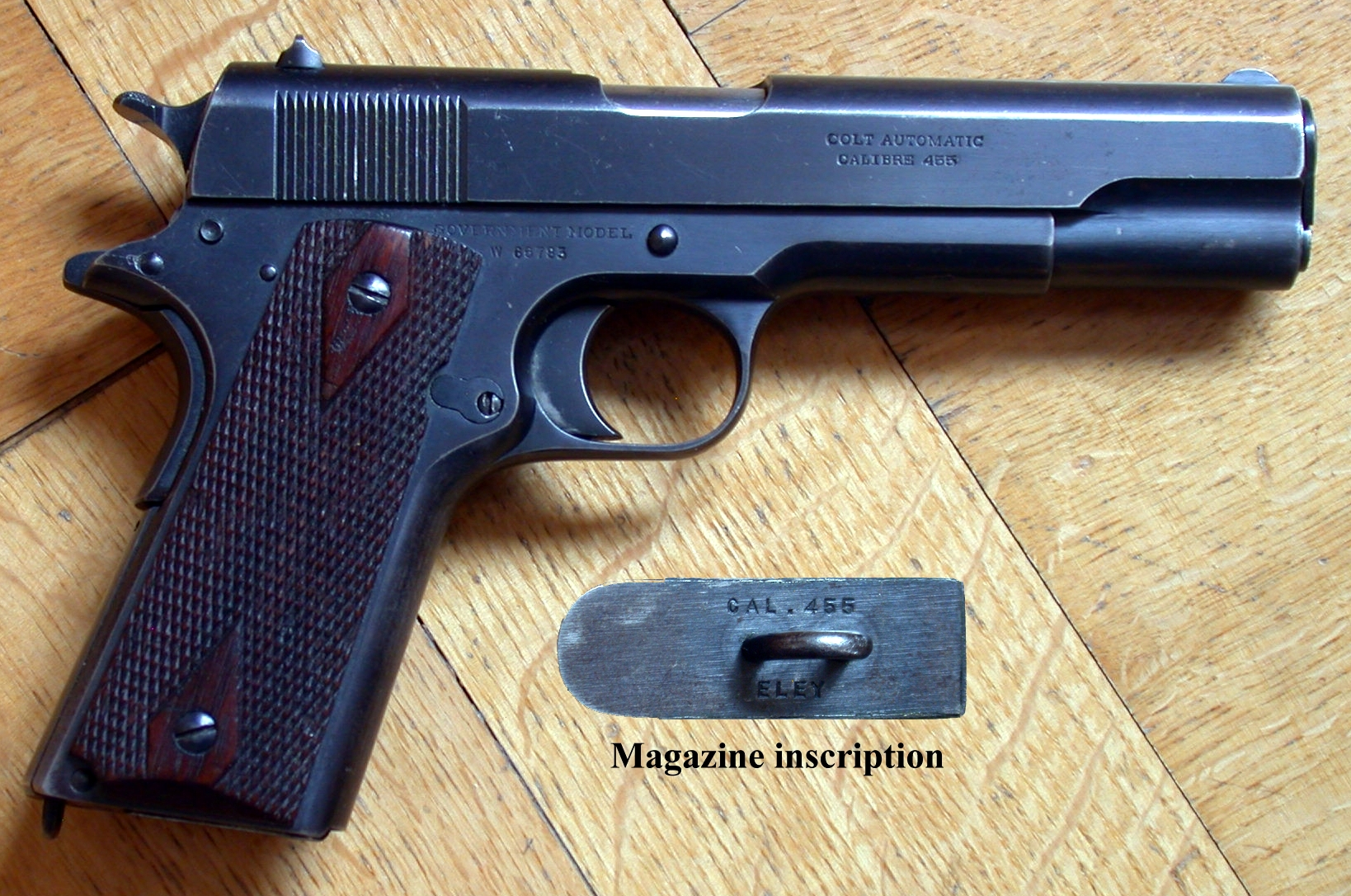 Colt M1911 (British Service Model) in calibre '.455 Webley Auto Mk 1'. This pistol dates from circa 1917.